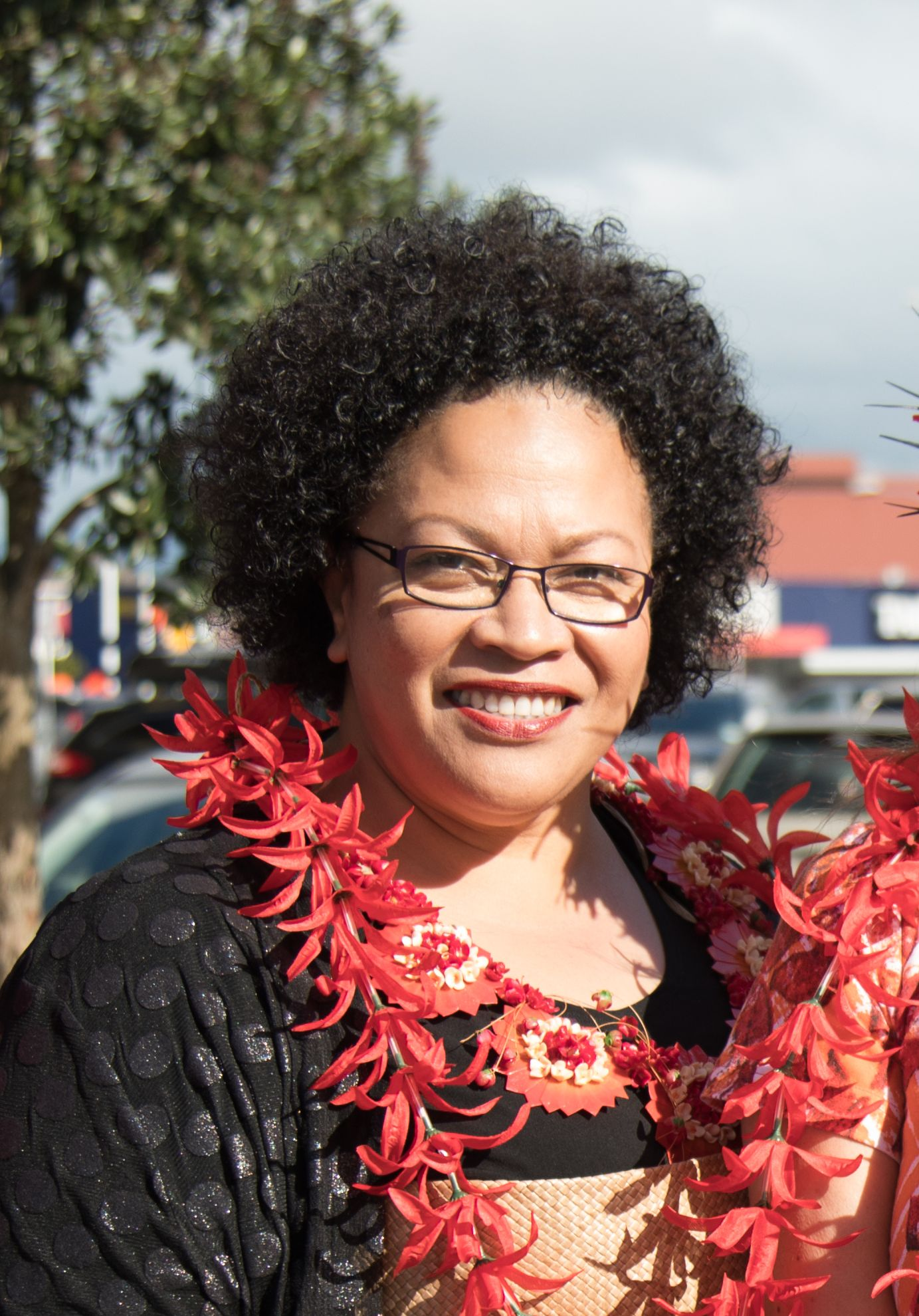 Anahila Kanongata'a-Suisuiki in August 2017